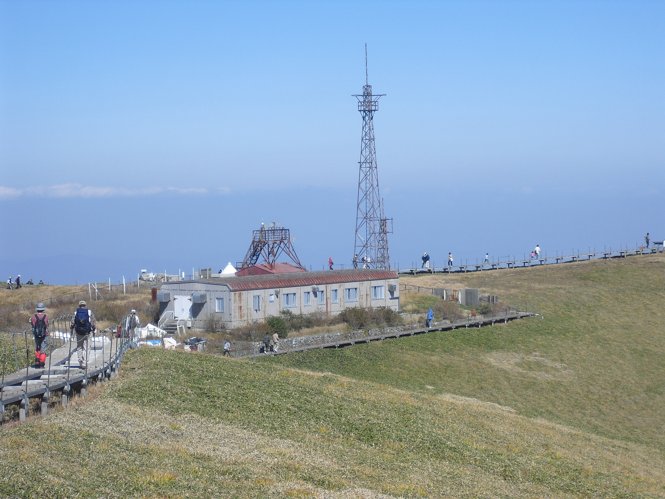 Tsurugiyama-meteorological-station